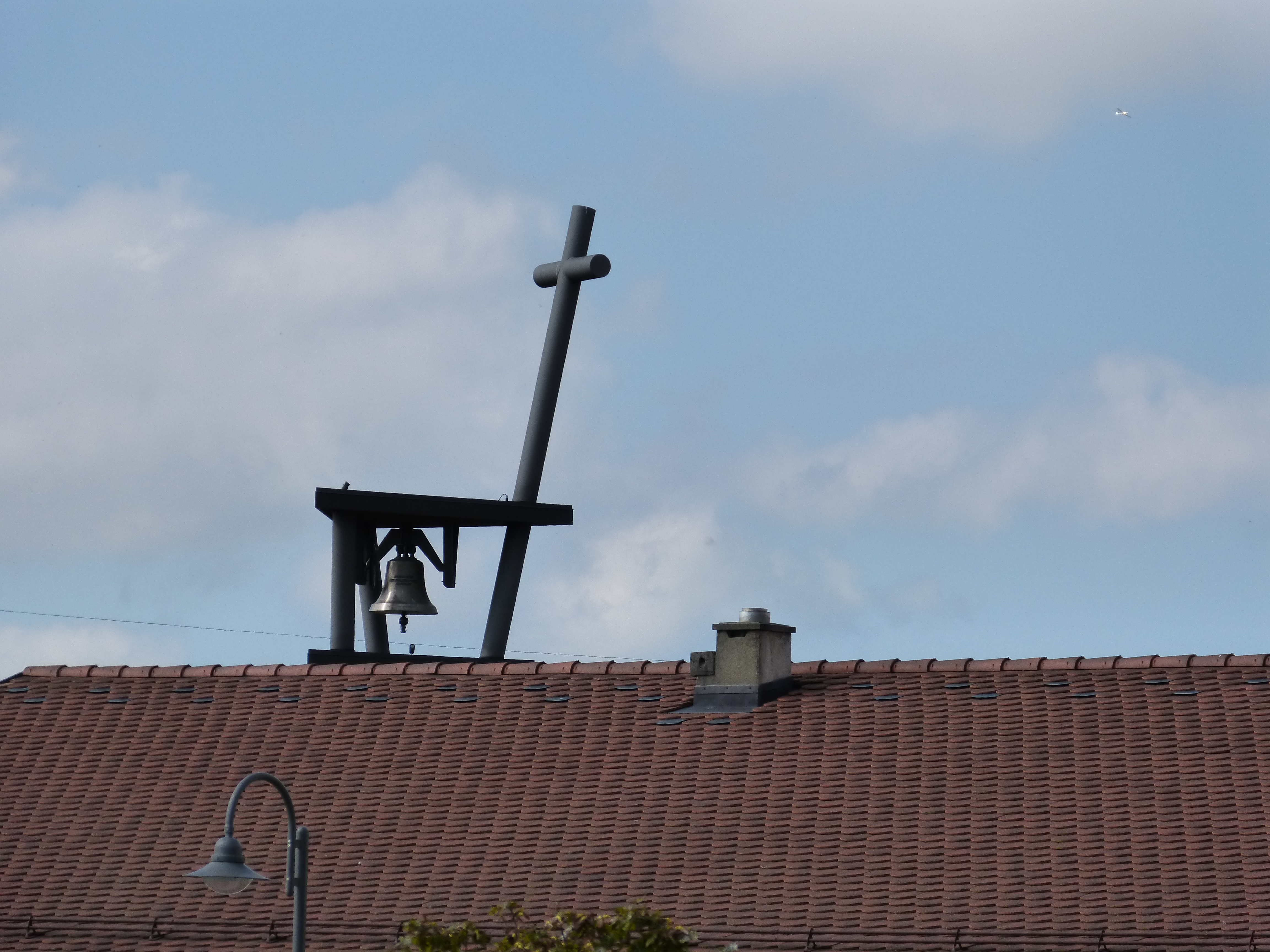 Roof of the chapel of the Ecumenical center in the municipality of Cugy.